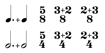 Notations cinq temps